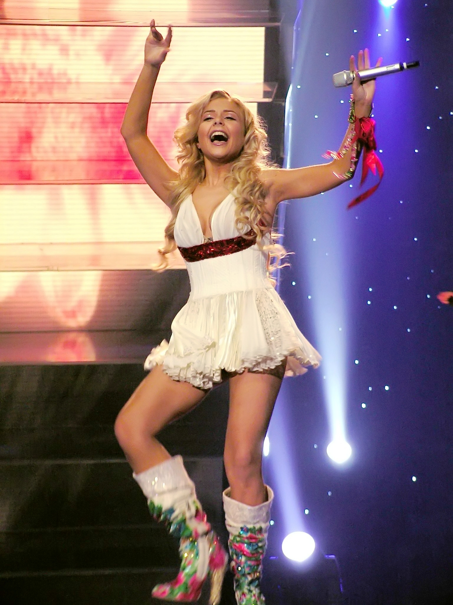 Tina Karol performing in the semi-final dress rehearsal for the Eurovision Song Contest 2006, representing Ukraine.